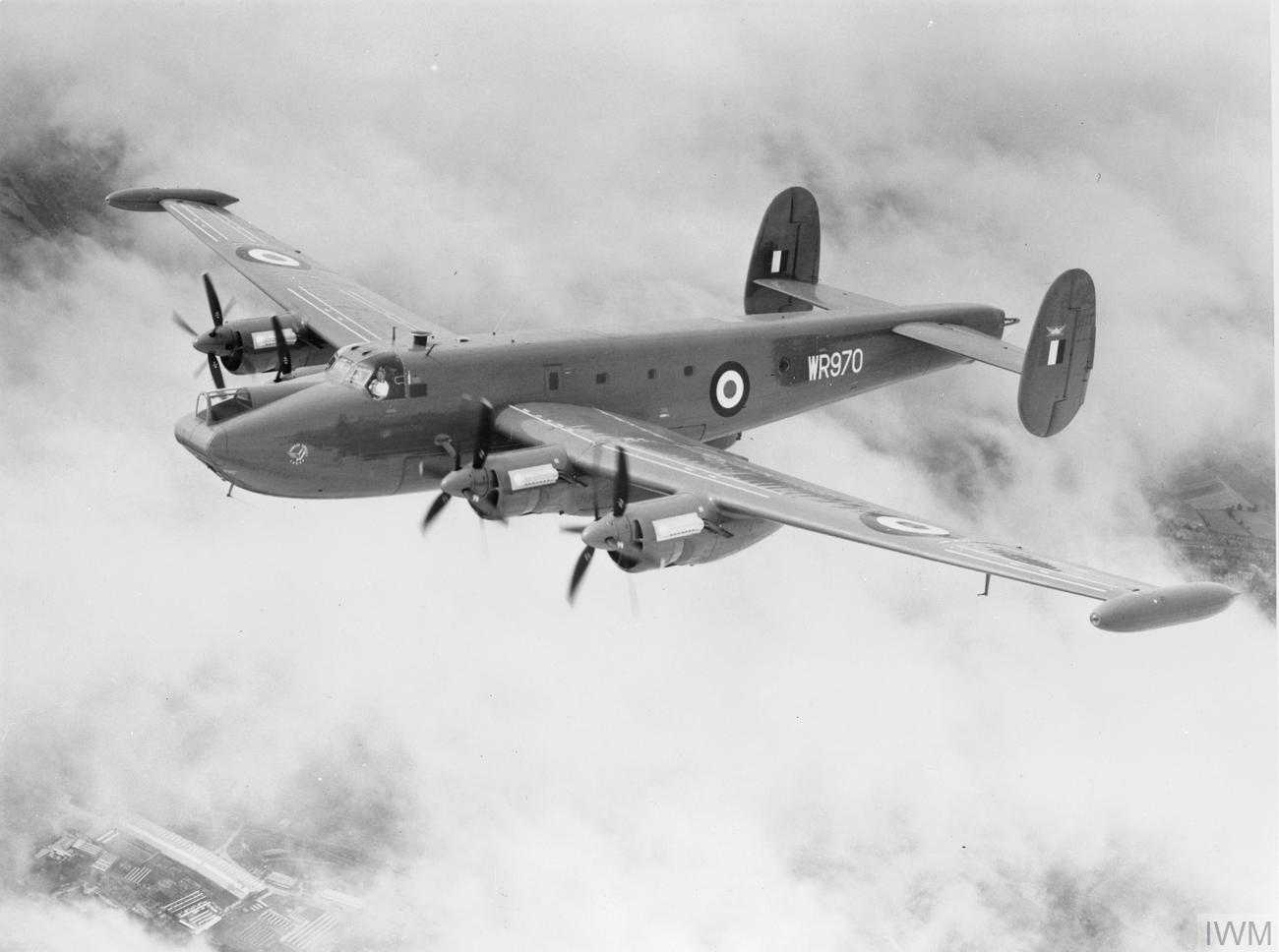 A Royal Air Force Avro Shackleton MR.3 (s/n WR970), in flight over cloud. WR970, the prototype Mk.3, was first flown on 2 September 1955. It was subsequently lost in a crash in the Peak District near Foolow, Derbyshire (UK) during operational tests on 7 December 1956. All on board were killed.